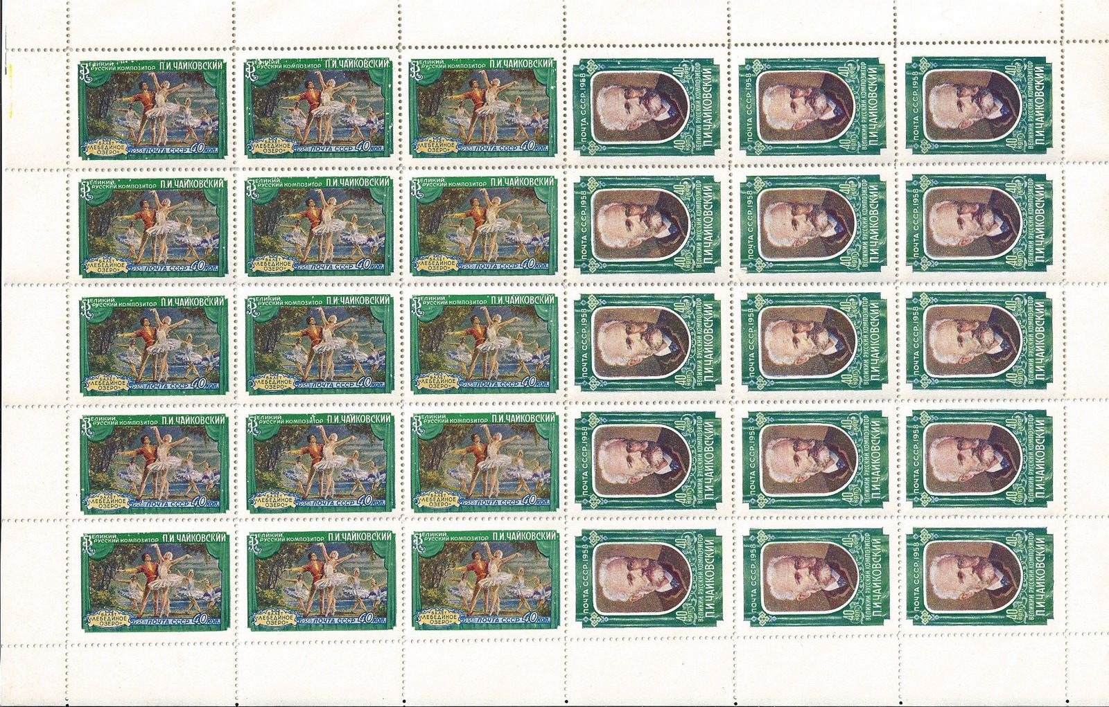 USSR 1958 stamps, International musical competition, Full sheet